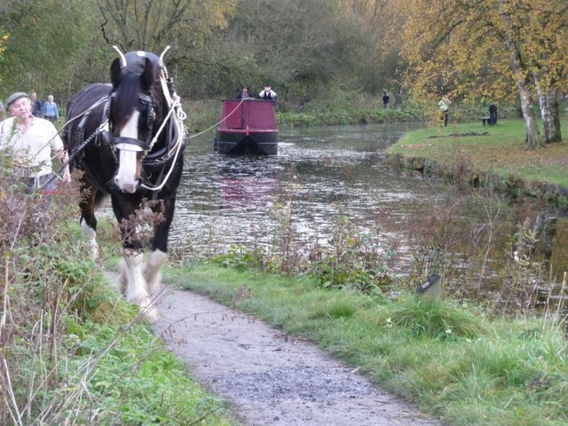 Horse-drawn canal boat approaching the swingbridge from the south. The Friends of the Cromford Canal show how it is done.